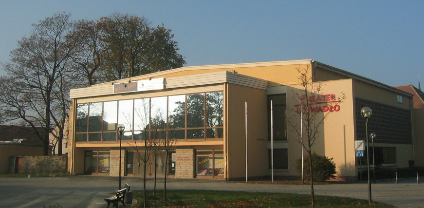 German-Sorb People's Theatre in Bautzen, Germany